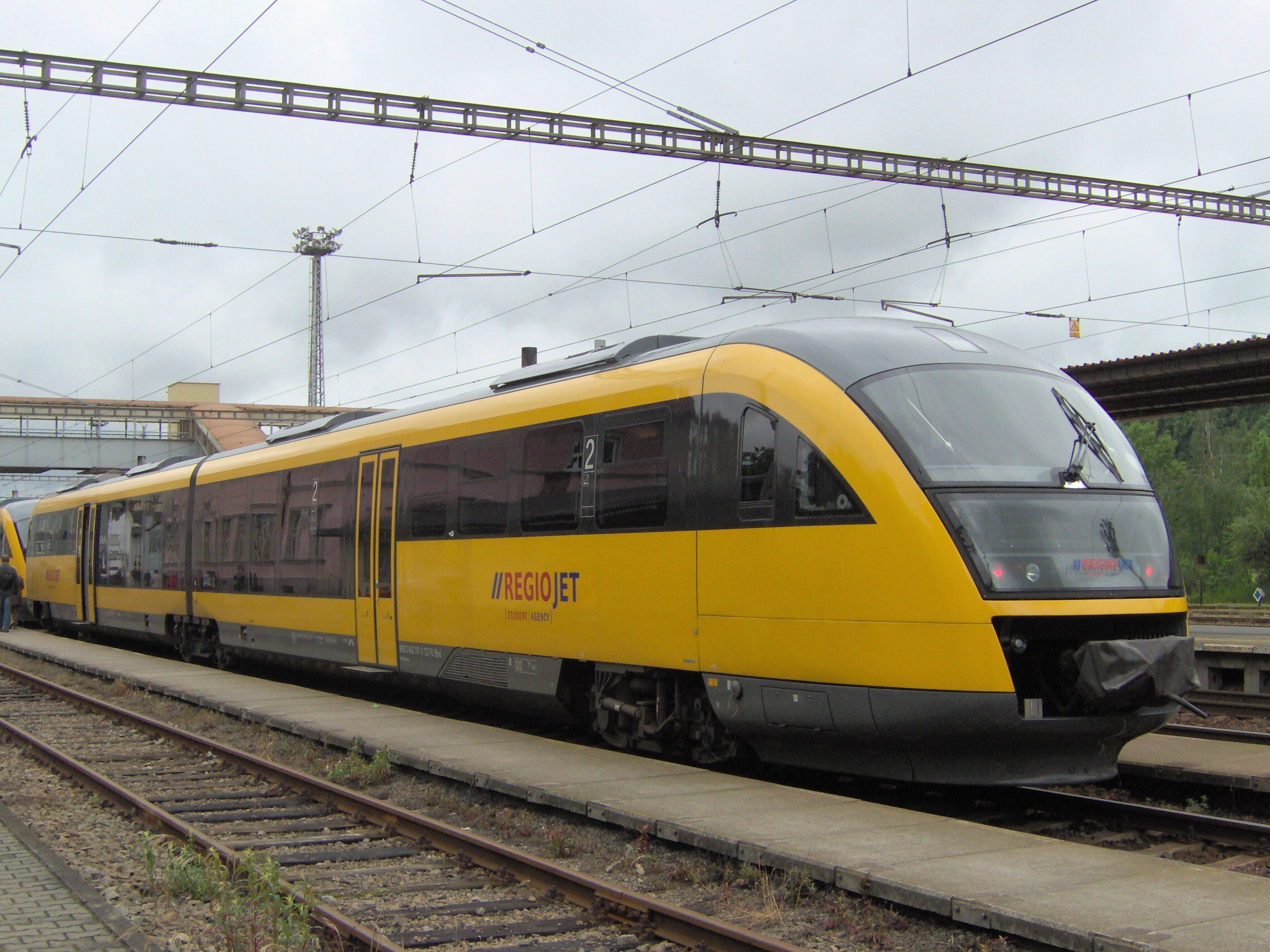 Diesel multiple units Siemens Desiro of RegioJet, Skalice nad Svitavou, Czech Republic